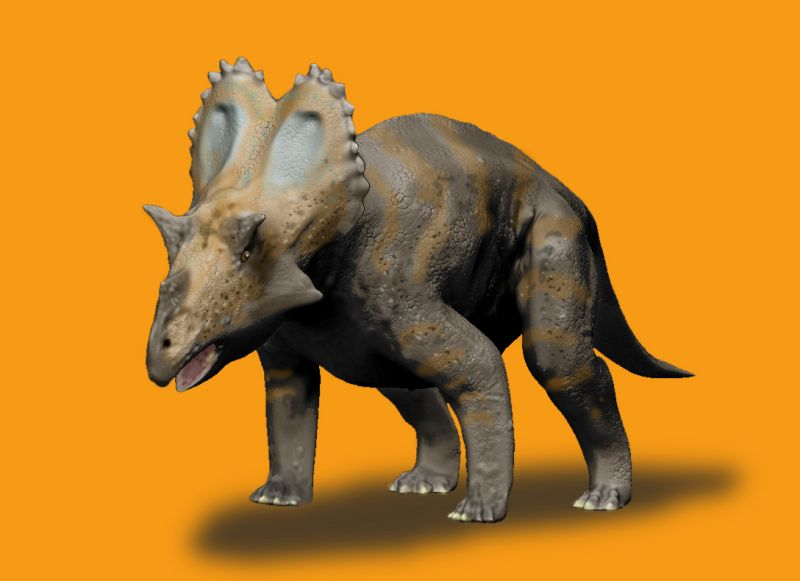 Utahceratops, a ceratopsian from the Late Cretaceous of Utah.